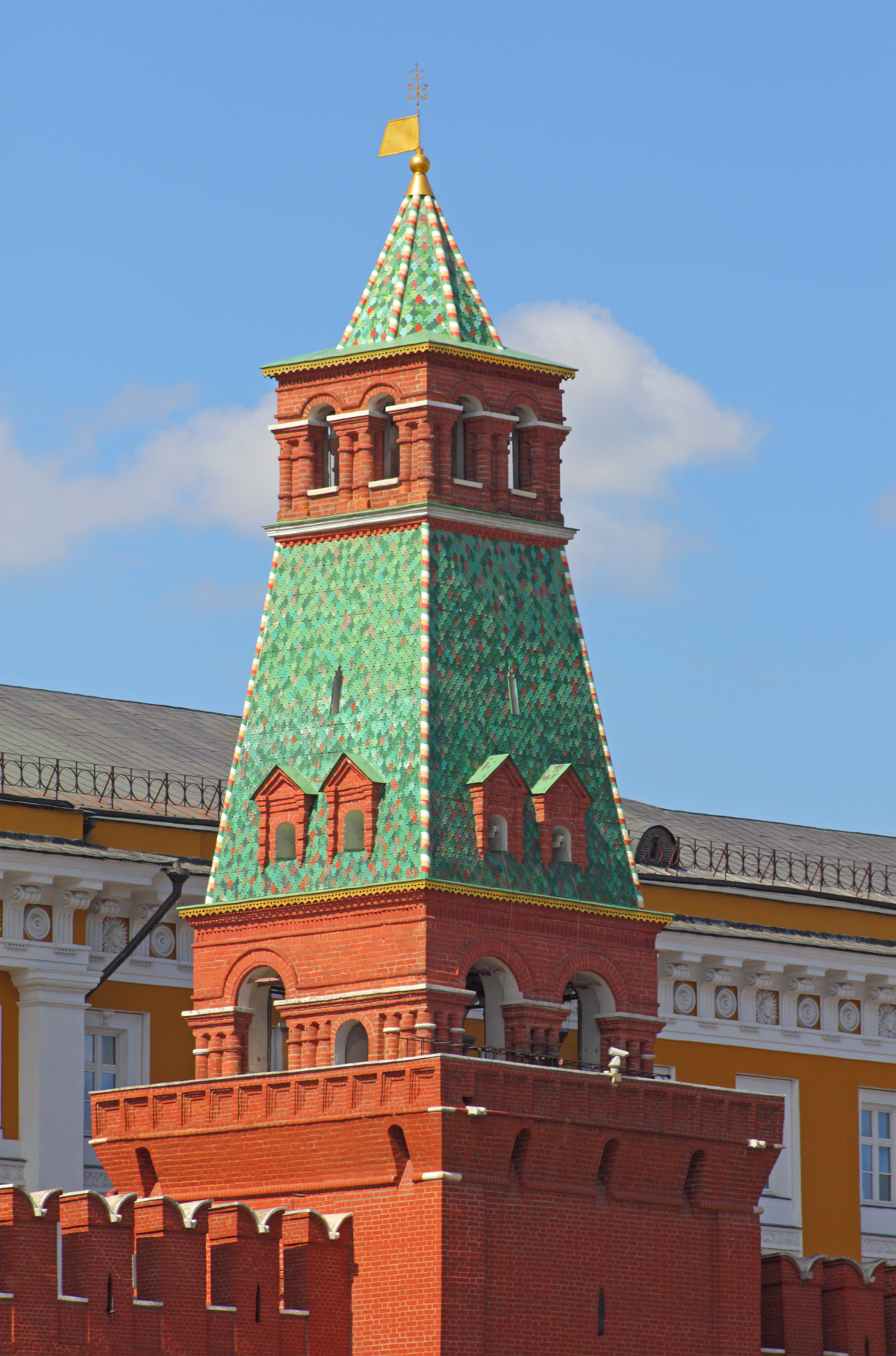 Moscow, Russia. Senatskaya (Senate) Tower of the Moscow Kremlin.